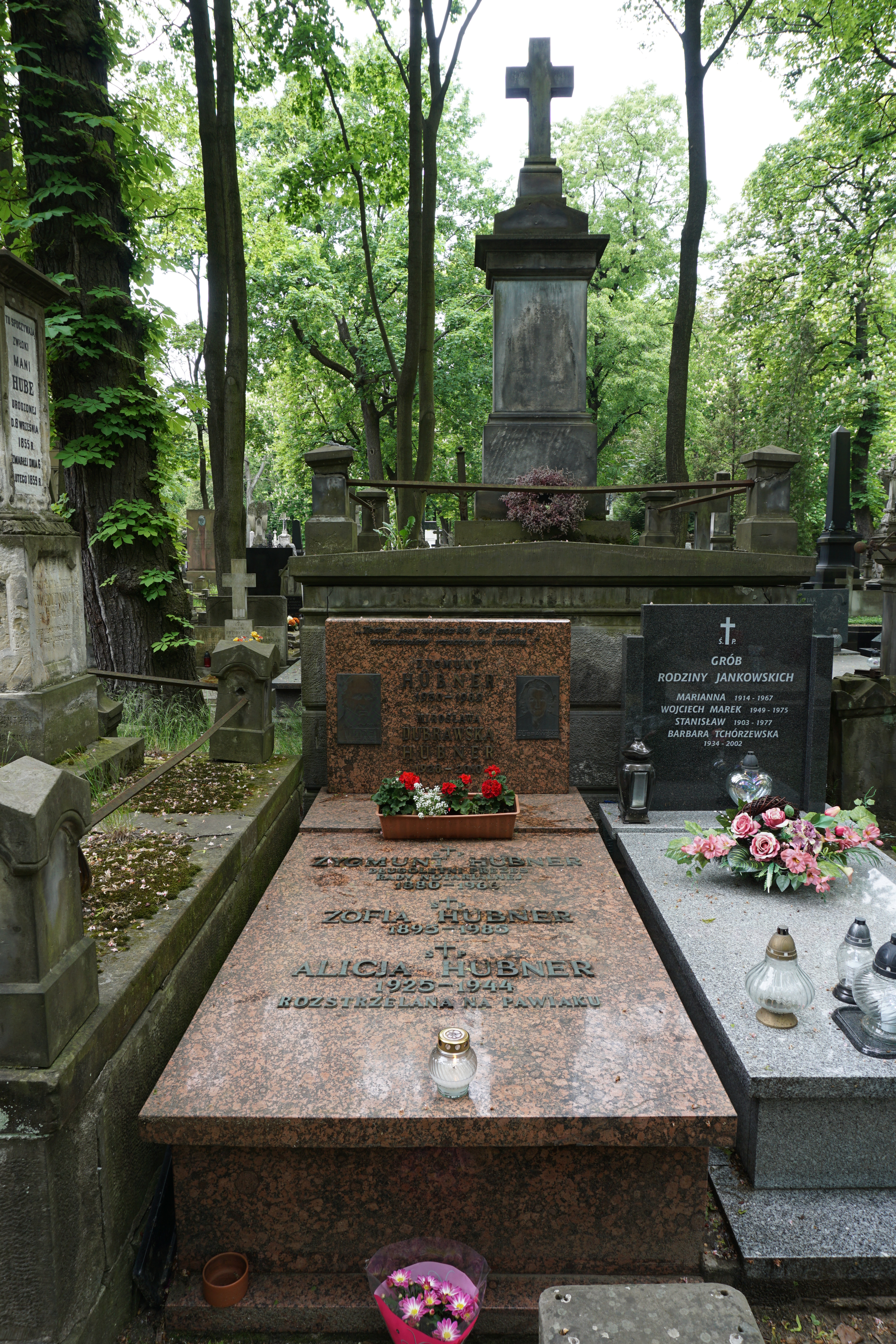 The grave of Zygmunt Hübner at the Powązki Cemetery (section 18, row 3, grave 18)